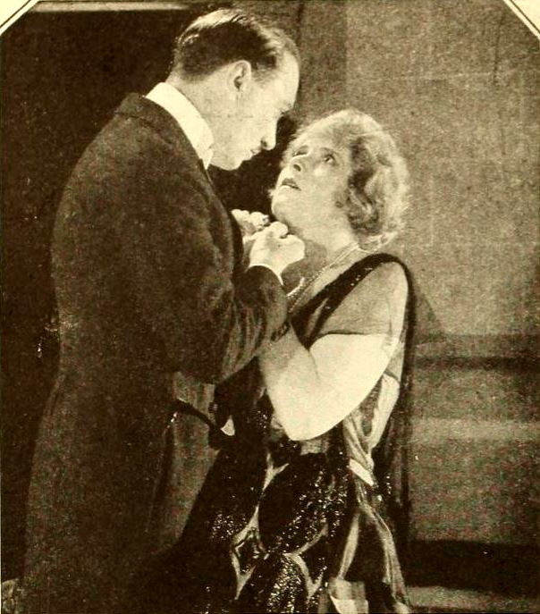 Still with Charles Waldron and Pearl White in the American silent film The Thief (1920), from page 52 of the February 1921 Photoplay magazine.